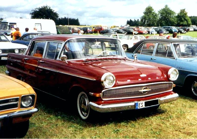 Opel Kapitän P-LV, 1959 - 1963